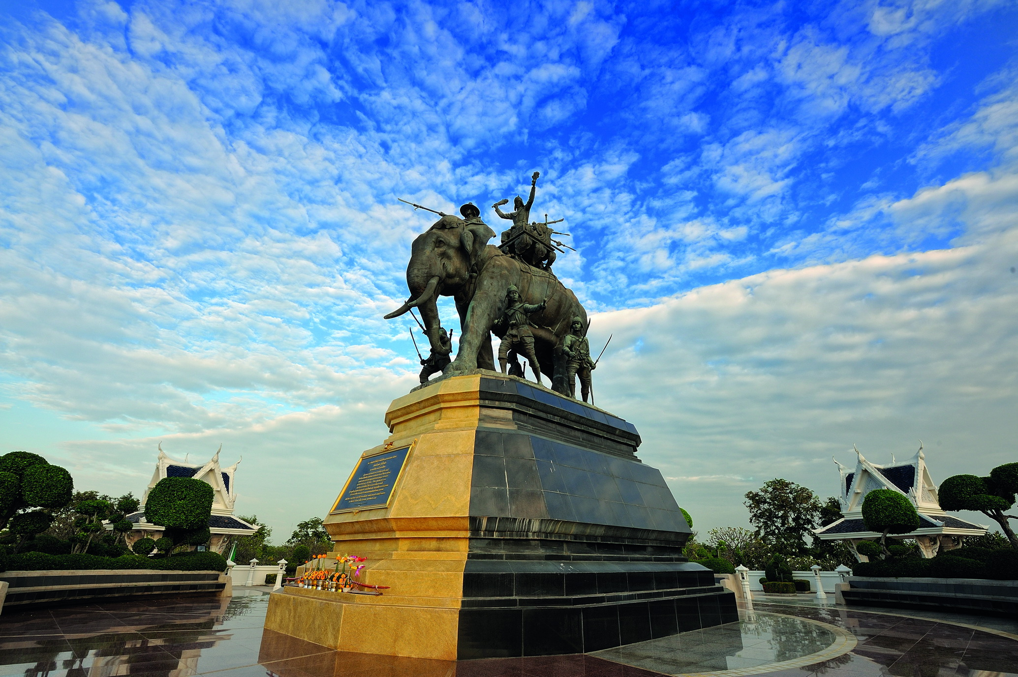 Queen Suriyothai Monument was constructed in 1991 in the area called “Tung Makham Yong” in Ban Mai sub-district, PhraNakorn Si Ayutthaya district in order to honor Queen Suriyothai and to mark the great occasion of Her Majesty Queen Sirikit’s 60th birthday anniversary in 1992. The memorial site is believed to be the actual site where a Siamese queen was killed in a heroic battle. It is known for her ultimate sacrifice in an attempt to protect her husband’s life in a battle with Burmese army. While fighting, King MahaChakkrapat’s elephant stumbled, Queen Suriyothai charged ahead to put her elephant between the King and the Viceroy of Pray. The Viceroy then engaged the fight and cleaved her with his halberd from her shoulder to her breast, resulting in the death of the queen on her elephant’s back. The bronze-cast statue of Queen Suriyothai riding on an elephant is about one and a half of the actual size. The site also displays other 49 sculptures situated nearby the monument. The monument was completed on July 3rd, 1995. And Her Majesty Queen Sirikit had come to ritual the spirit of Queen Suriyothai.